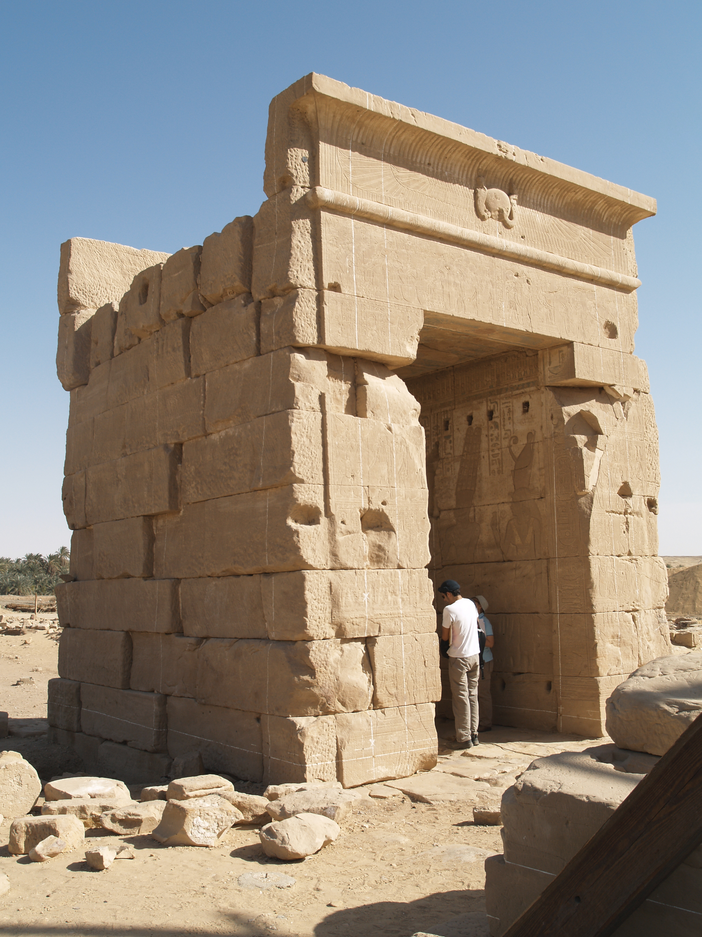 AWIB-ISAW: Hibis, Temple (I) An exterior view of the limestone entrance to the temple of the Theban triad (Amun, Mut & Khonsu) at Hibis in the Kharga Oasis. by NYU Excavations at Amheida Staff (2006) copyright: 2006 NYU Excavations at Amheida (used with permission) photographed place: Hebet (Hibis) [1] authority: Image published on the authority of the Amheida Project Director, Roger Bagnall Published by the Institute for the Study of the Ancient World as part of the Ancient World Image Bank (AWIB). Further information: [2].